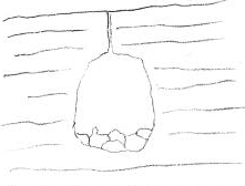 Geological process